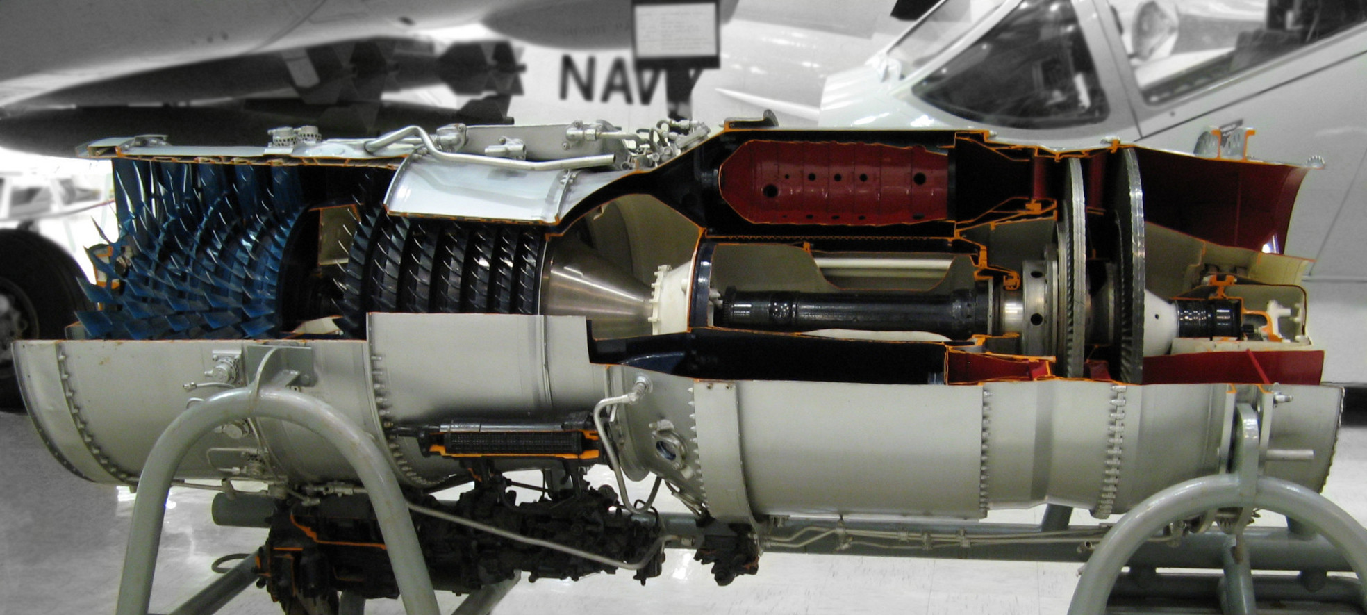 A sectioned Pratt & Whitney J52 twin-spool turbojet engine.